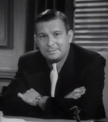 Mark Hellinger in the trailer of the film The Roaring Twenties (1939).